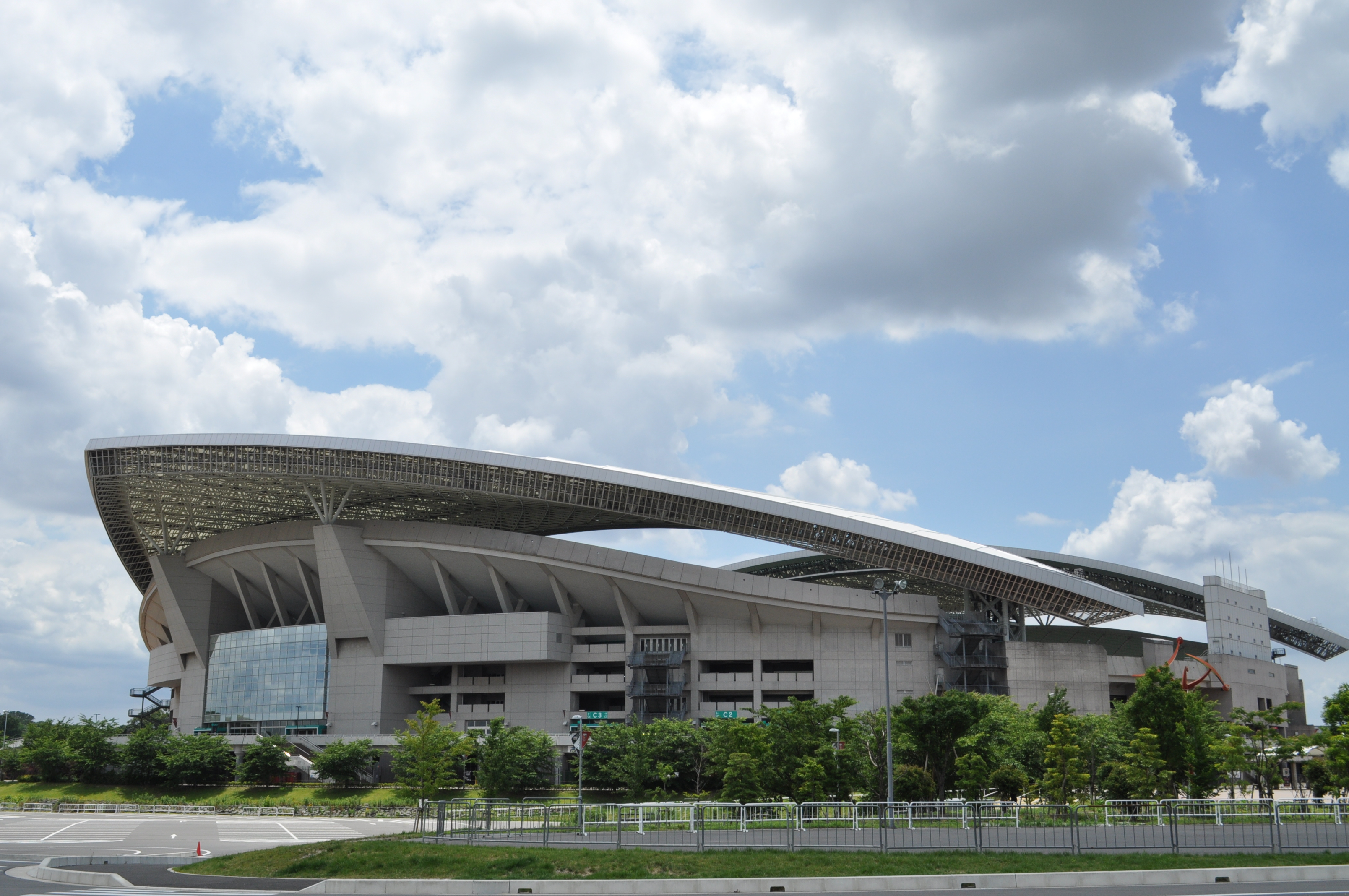 Saitama Stadium 2002 in Midori-ku, Saitama, Japan